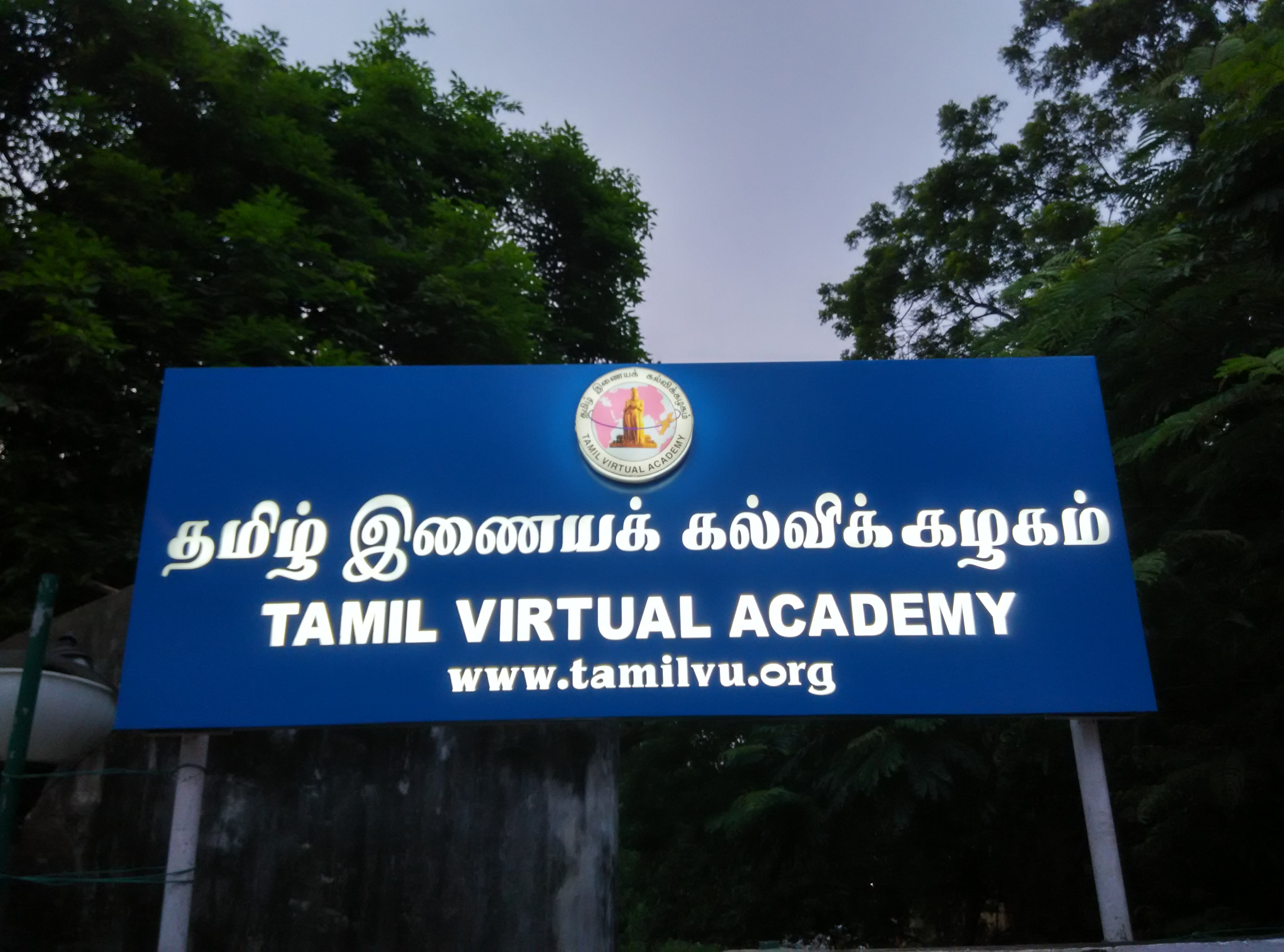 Tamil Virtual Academy